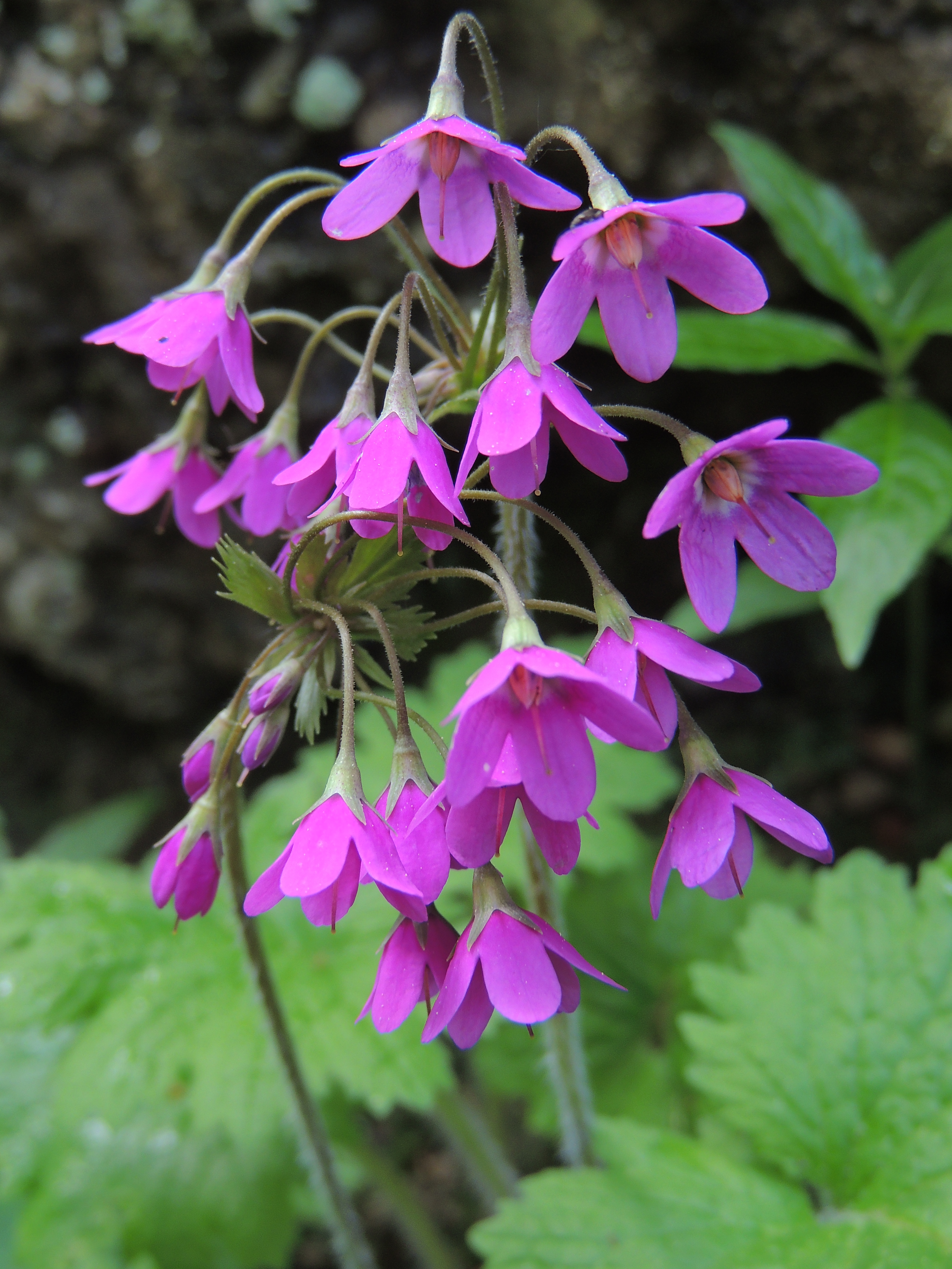 Alpine Bells (Primula matthioli), in the Piatra Mare Mountains, Romania